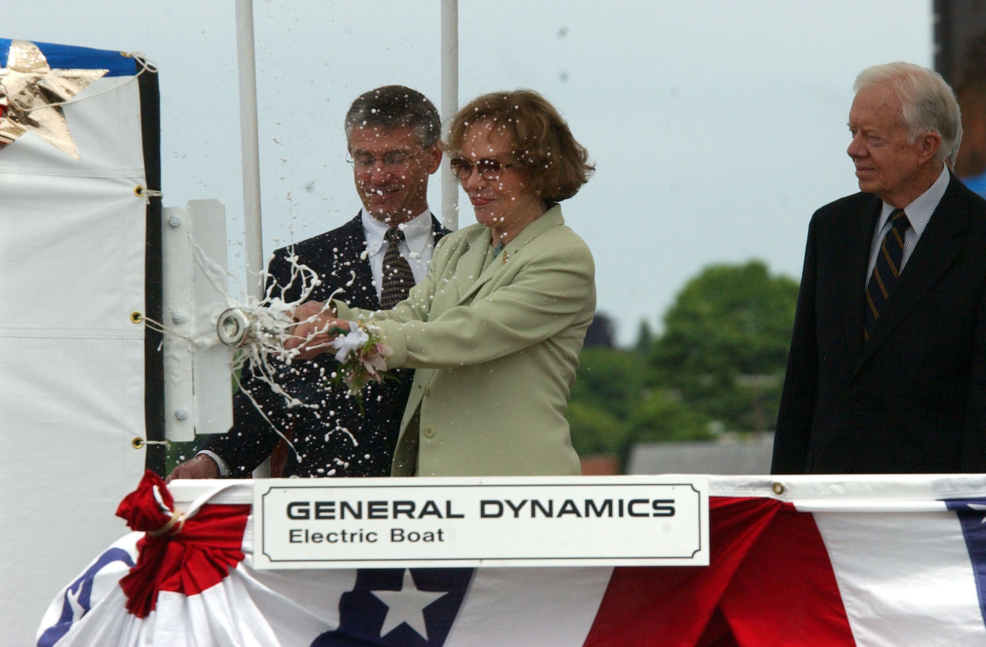 Groton, Conn (Jun. 5, 2004) — Former First Lady Rosalynn Carter smashes a bottle of Champagne against the sail of the Seawolf-class nuclear attack submarine Jimmy Carter (SSN-23) during the ship’s christening ceremony. The new submarine honors the 39th president of the United States who is the only submarine-qualified man that went on to become the nation's chief executive. Differentiating the Jimmy Carter from all other undersea vessels is her Multi-Mission Platform (MMP), which includes a 100-foot hull extension that enhances payload capability, enabling it to accommodate advanced technology required to develop and test an entirely new generation of weapons, sensors and undersea vehicles. Jimmy Carter is the third and last of the Seawolf-class submarines.